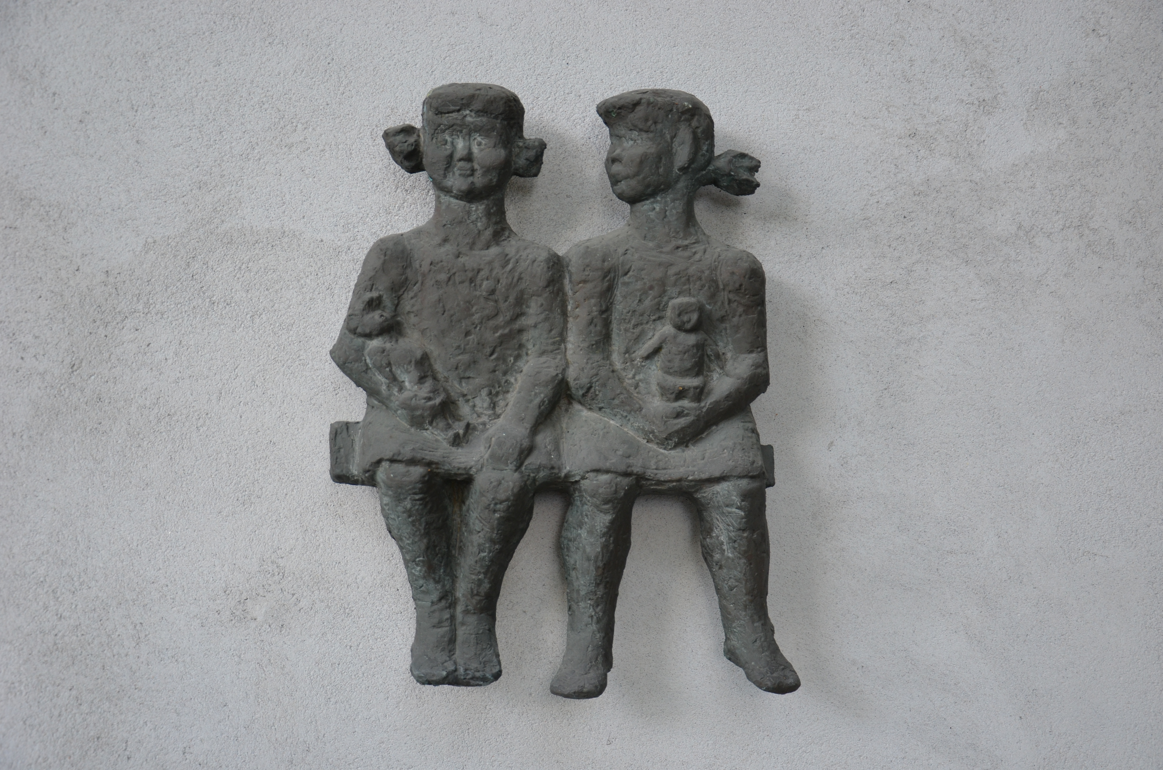 Elsie Dahlbergs Mammor, väggrelief i brons, Tallgården, Enebyberg, Danderyds kommun